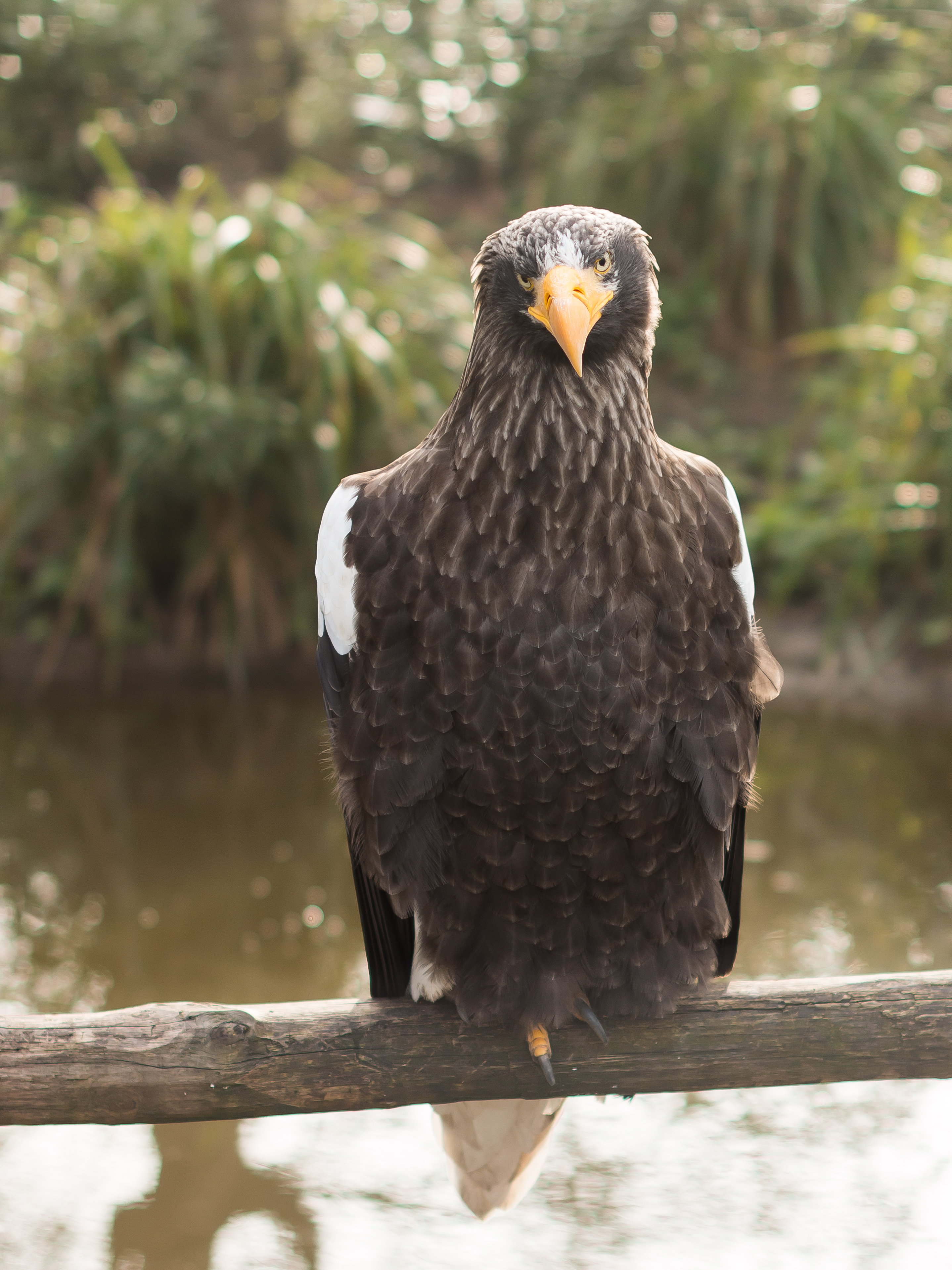 Picture taken at Rotterdam's Blijdorp Zoo, Netherlands.